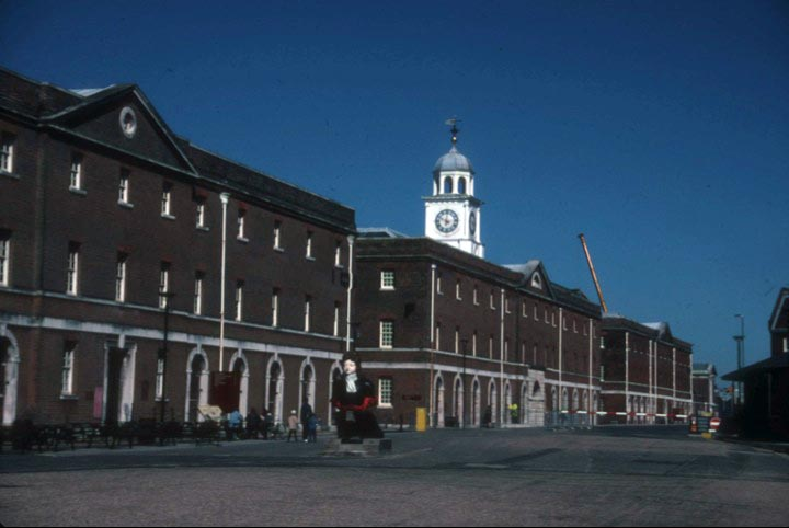 ROYAL NAVAL MUSEUM